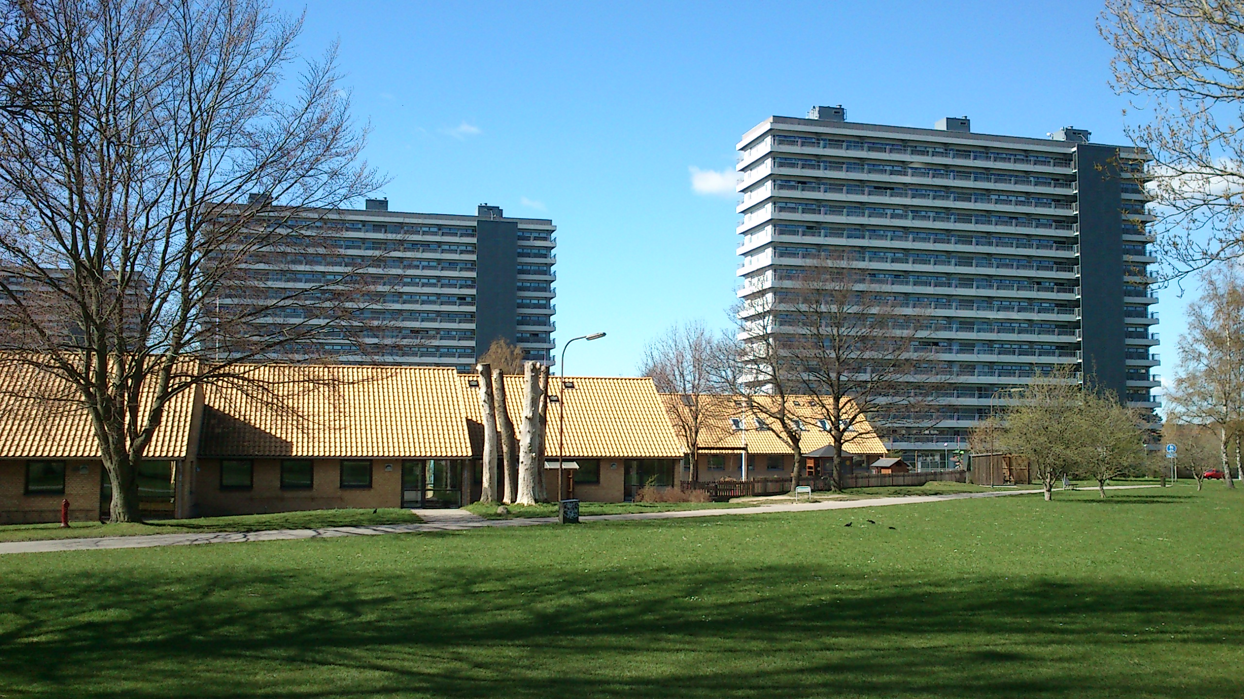 The two high-rises forming "Langenæshus" in Aarhus. The block in the back is called "Langenæs-bo". The low yellow buildings in the front are a nursery and kindergarten.